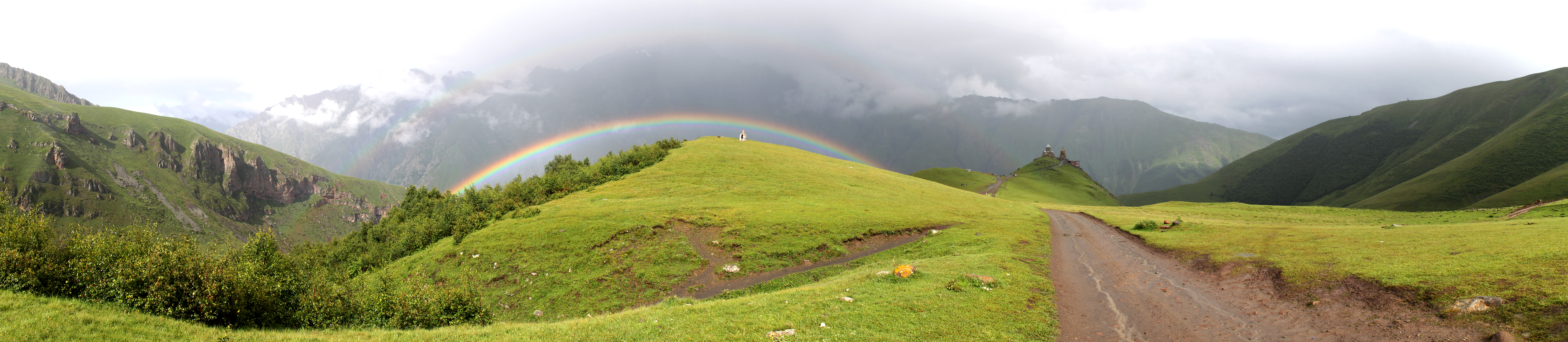 A panorama taken in front of Tsiminda Sameba (the Holy Trinity Church) in Kazbegi, Georgia, right after a heavy rain. Photo stitched using 6 photos with Photoshop CS4. 中文（香港）: 在格魯吉亞卡茲別吉的聖三一教堂前一場大雨後拍的全景圖。以Photoshop CS4用6張相片合成而成。